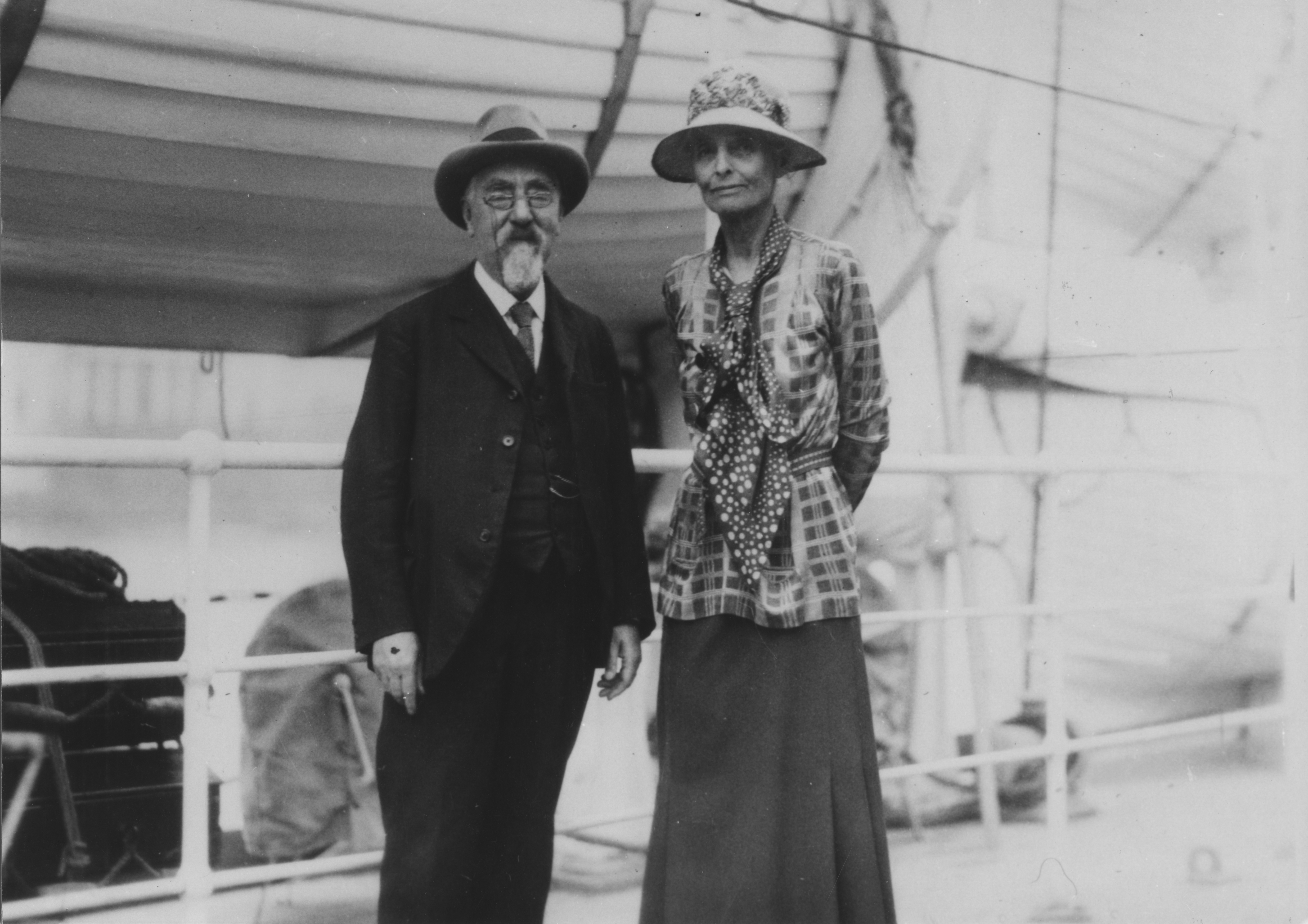 Setting off for Russia IMAGELIBRARY/73 Persistent URL